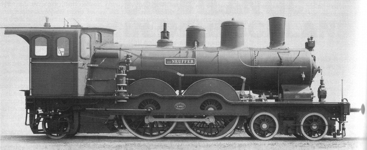 Steam locomotive Palatinatian P 3 I.